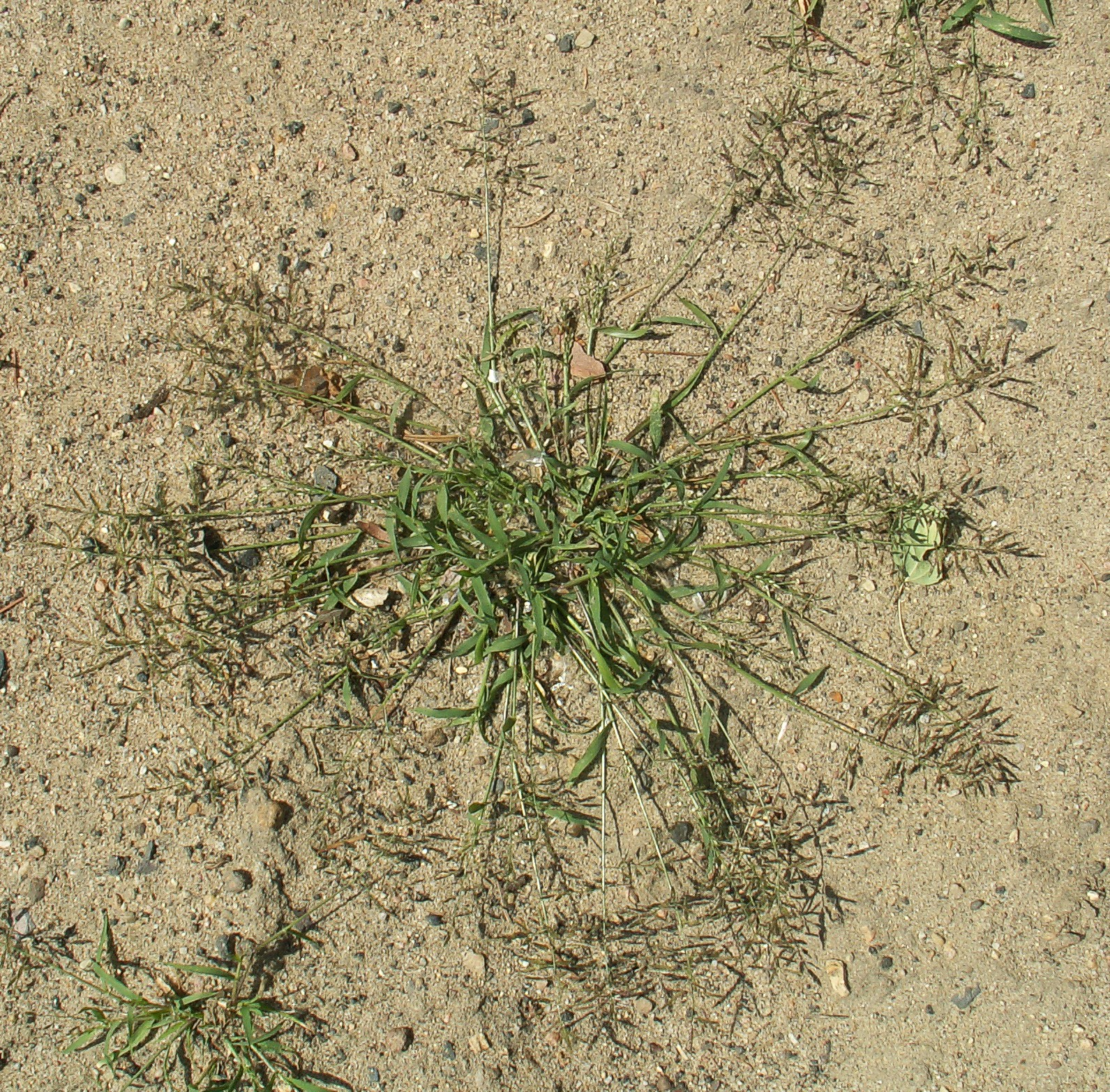 Eragrosis minor.